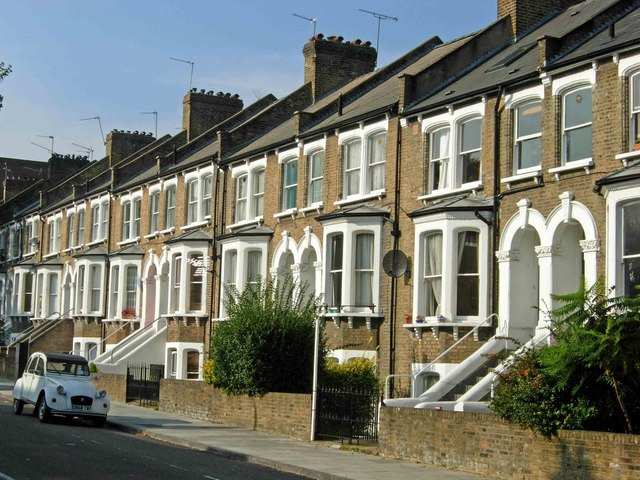 Tufnell Park Looking along Tufnell Park Road towards Tufnell Park Underground station. Tufnell Park acquired its name from a William Tufnell who held the Manor of Barnsbury in 1753; the manor passed to George Tufnell, a brewer, in 1797. Today these mid-Victorian terraced houses are well looked after and attract high prices.